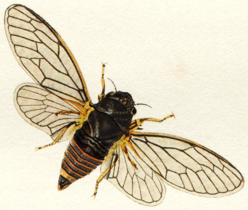 Cicadetta montana (male) - page 95/276 vol.7 British Entomology - John Curtis